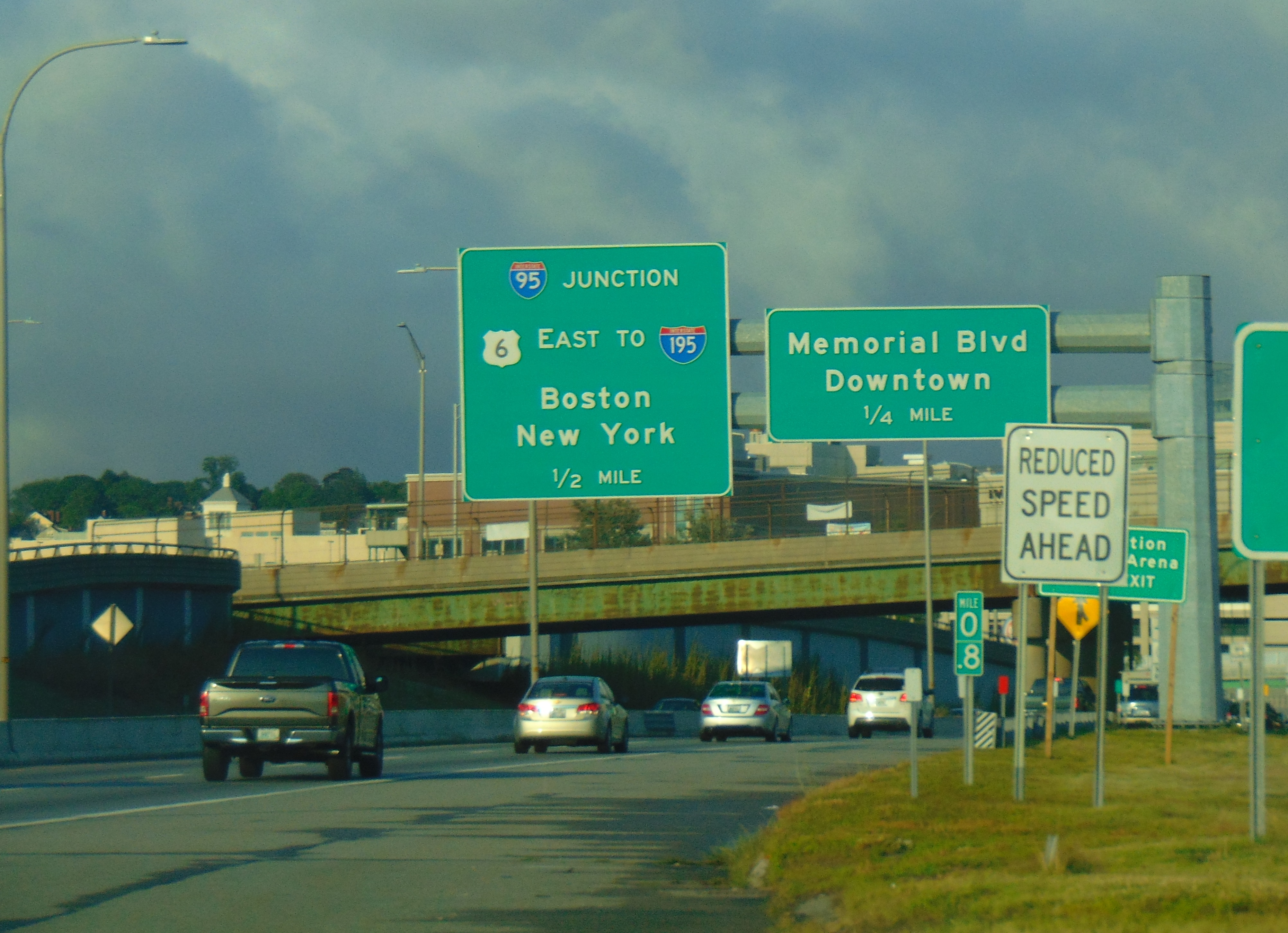 The sign for the I-95 intersection with I-95, with signs leading to I-195/US 6